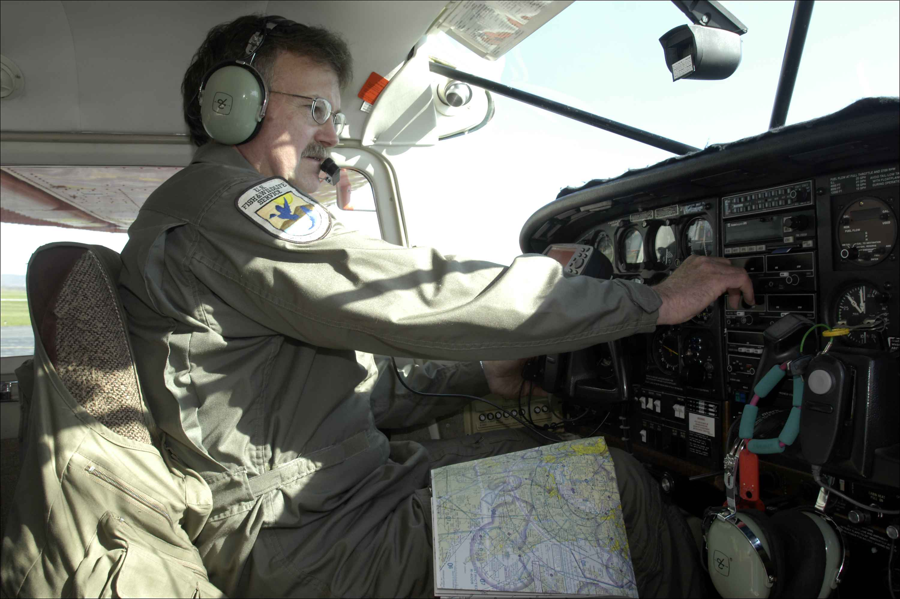 Image title: Pilot in plane checking before flight Image from Public domain images website